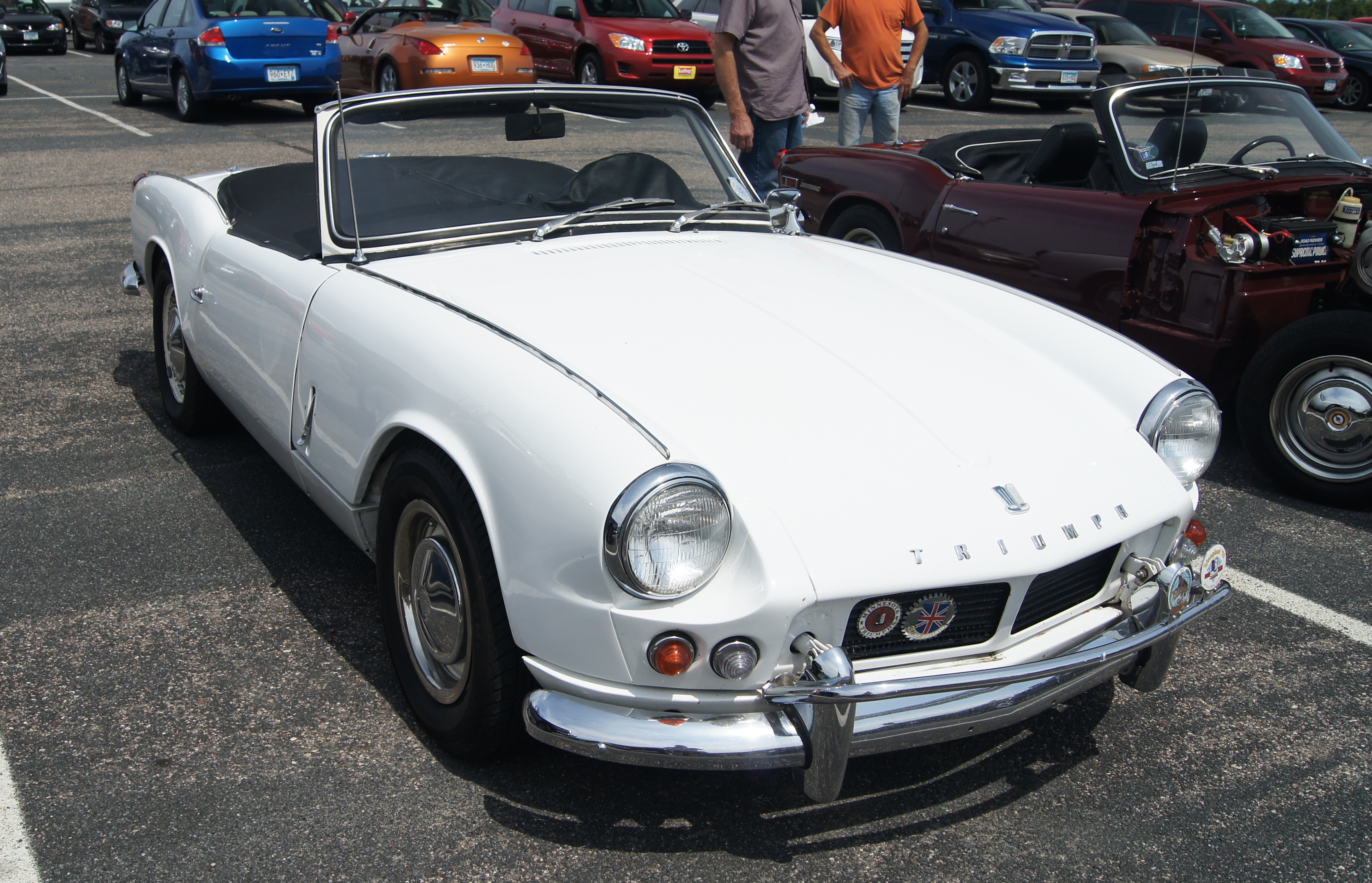 1963 Triumph Spitfire26th Annual New London to New Brighton Antique Car Run August 11, 2012.